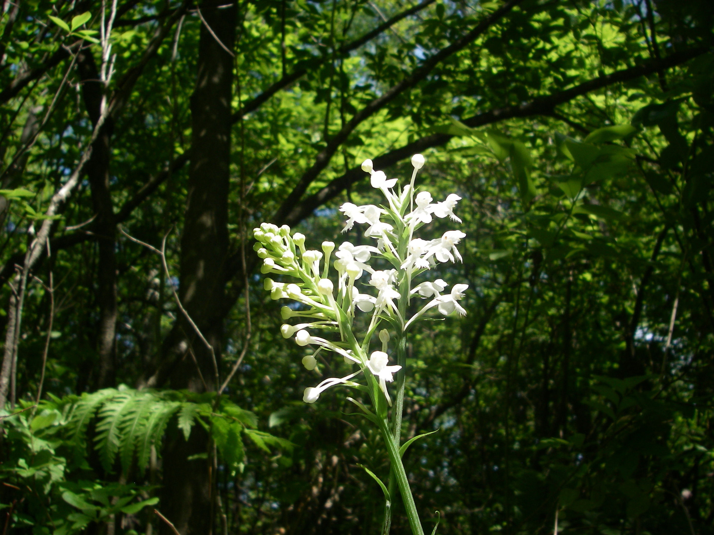 Habenaria blephariglottis or Platanthera blephariglottis, (White_fringed_orchid) I personally took this pict in the bog at Ward Reservation, Massachusetts.